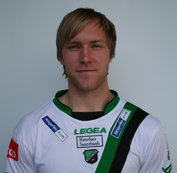 Joachim Magnussen, norsk fotballspiller som spiller for Hønefoss Ballklubb.